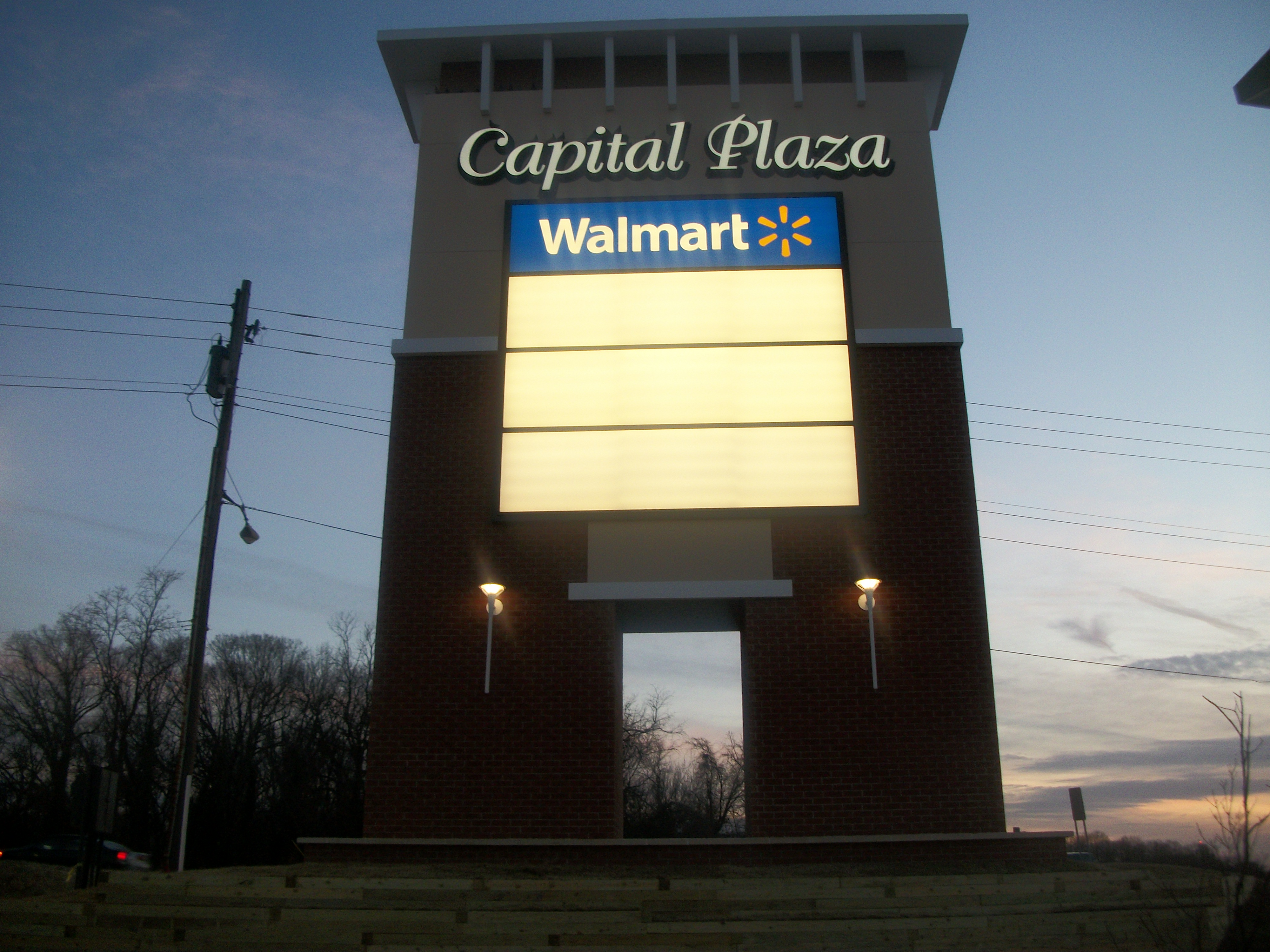 the Carital plaza sign being renovated